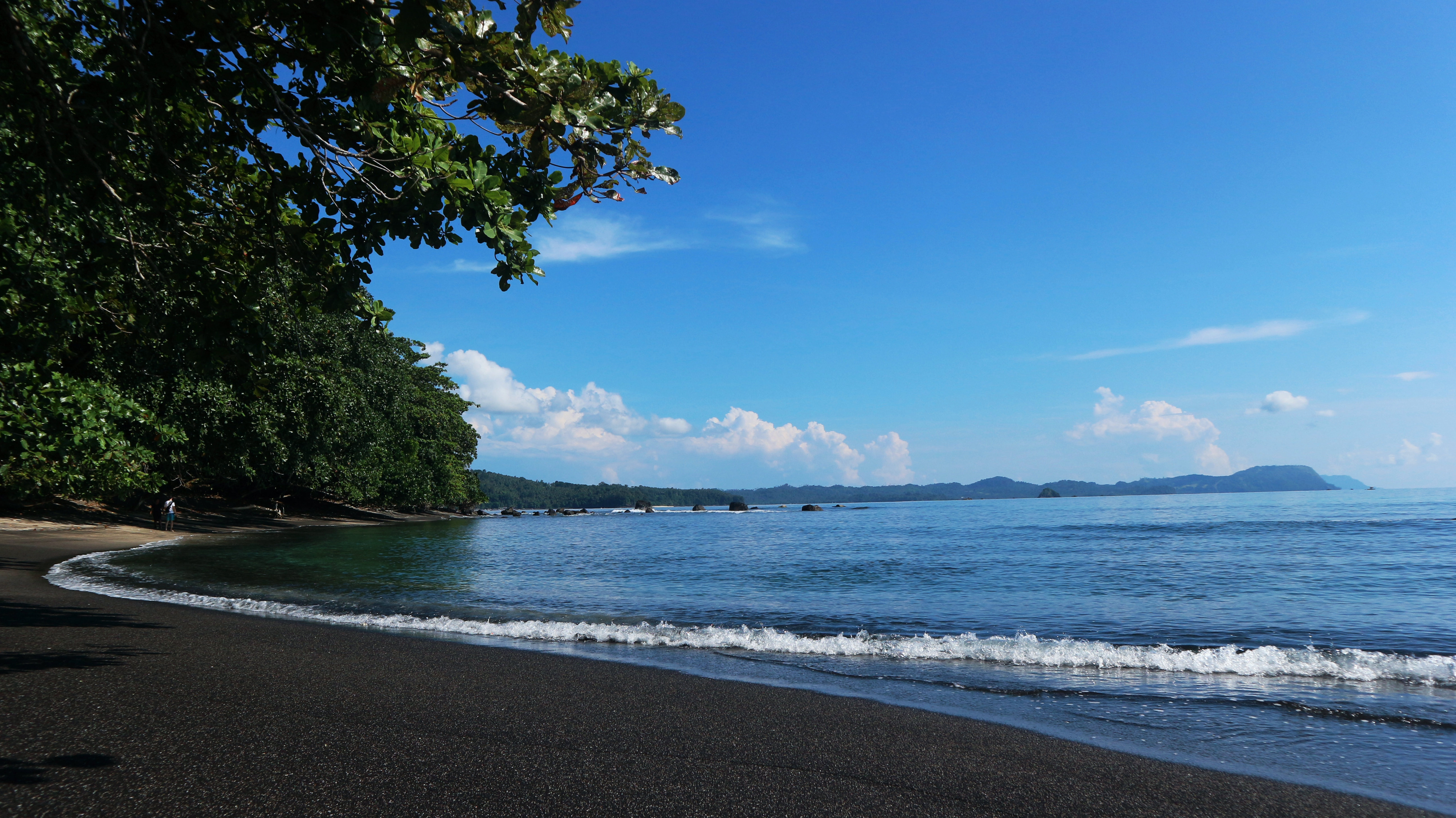 Taman Wisata Alam Batuputih is a conservation area in Bitung City, North Sulawesi. Black sand beaches and partly white become one of the places of choice for the people of North Sulawesi to relax and learn about nature